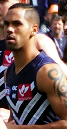 Shane Yarran playing for Fremantle Football Club at Domain Stadium, Perth. Round 23: Fremantle vs Western Bulldogs, 28 August 2016